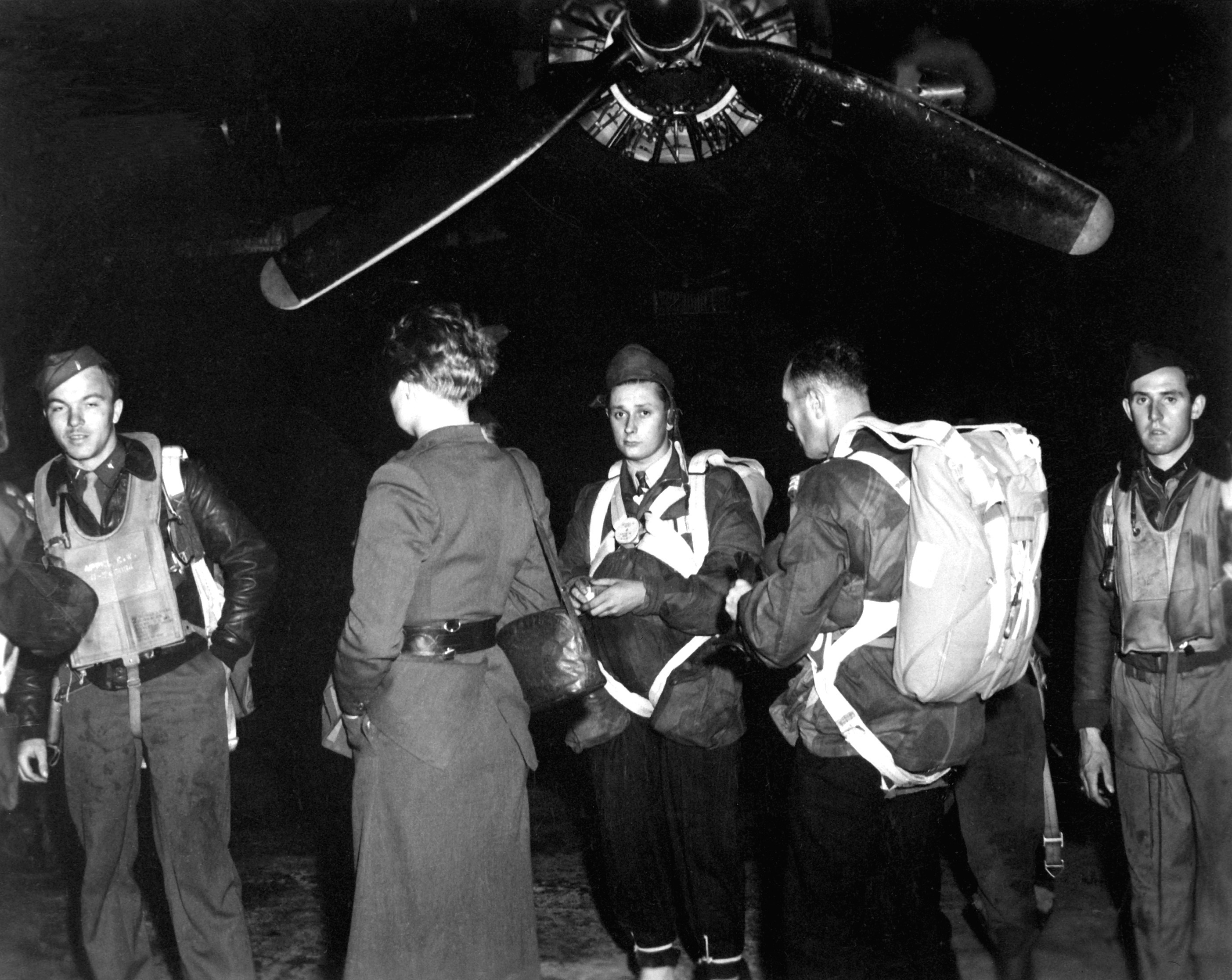 Jedburghs in front of B-24 just before night at Area T, Harrington Airdrome, England. NARA FILE #: 226-FPL-T-25 WAR & CONFLICT BOOK #: 1038. ID: HD-SN-99-02697